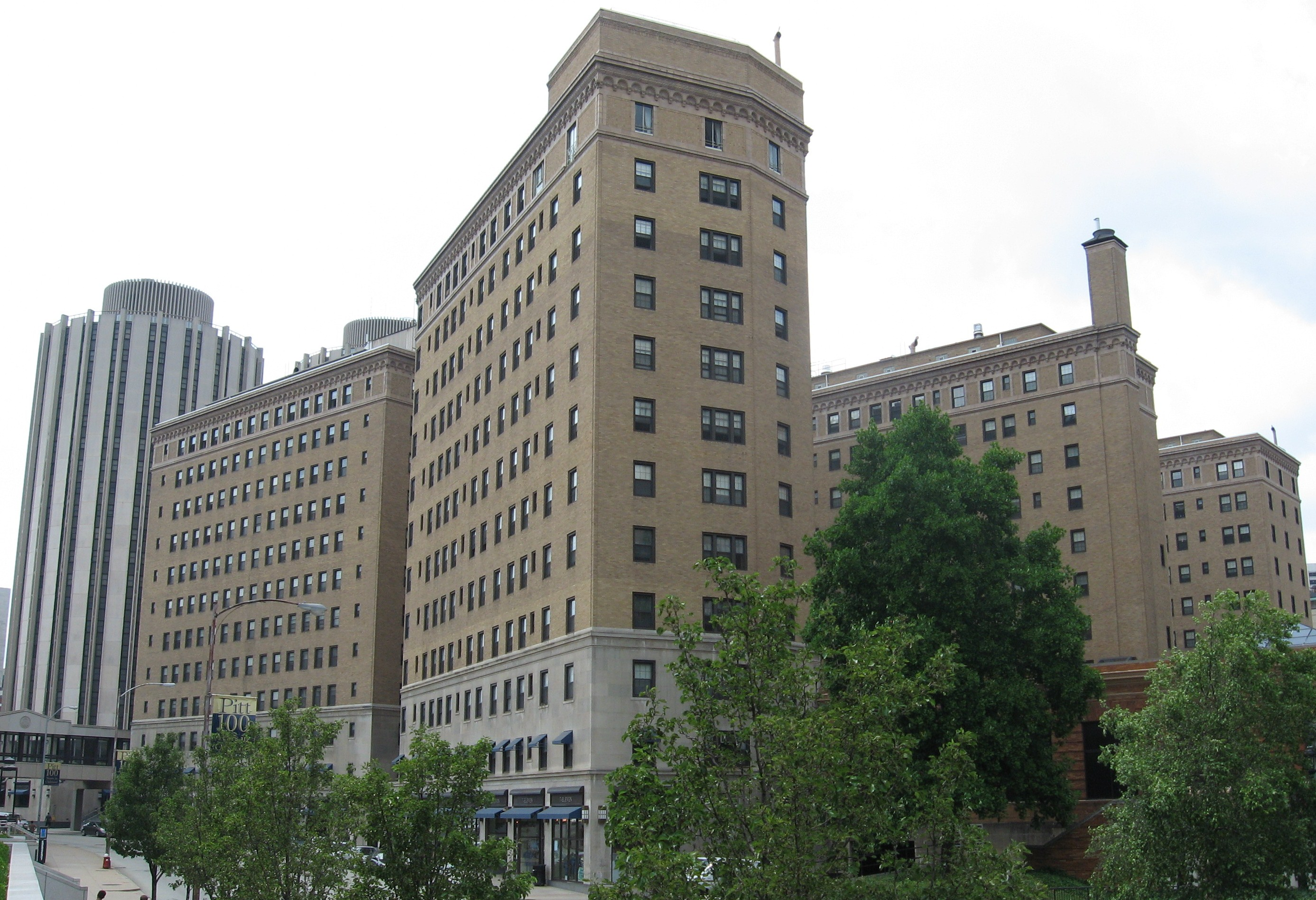 The Schenley Quadrangle, including the Litchfield Towers, Brackenridge Hall, Bruce Hall, McCormick Hall, and Amos Hall. Photo taken from the Hillman Library 40°26′35.4″N 79°57′19″W / 40.443167°N 79.95528°W